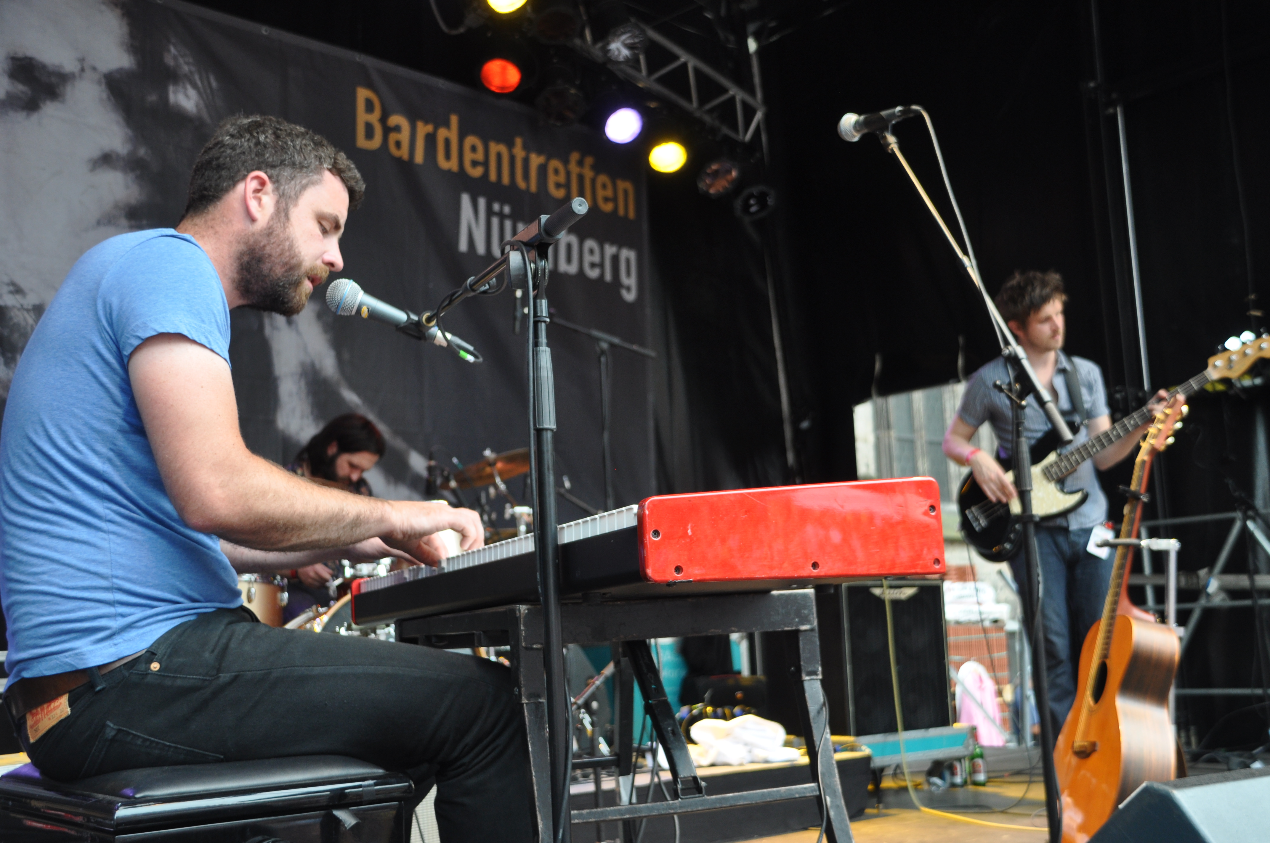 Mick Flannery (Ireland / Éire), appearance at the 38th music festival "Bardentreffen" 2013 in Nuremberg, Germany, St. Sebald Square stage